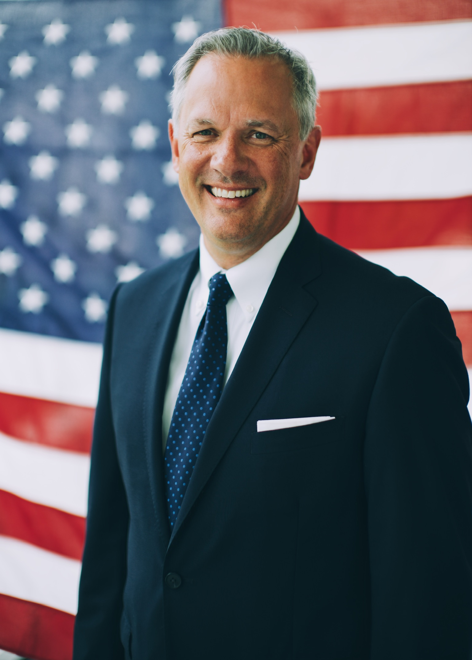 Lt. Gov. Dan Forest is a candidate for governor of North Carolina